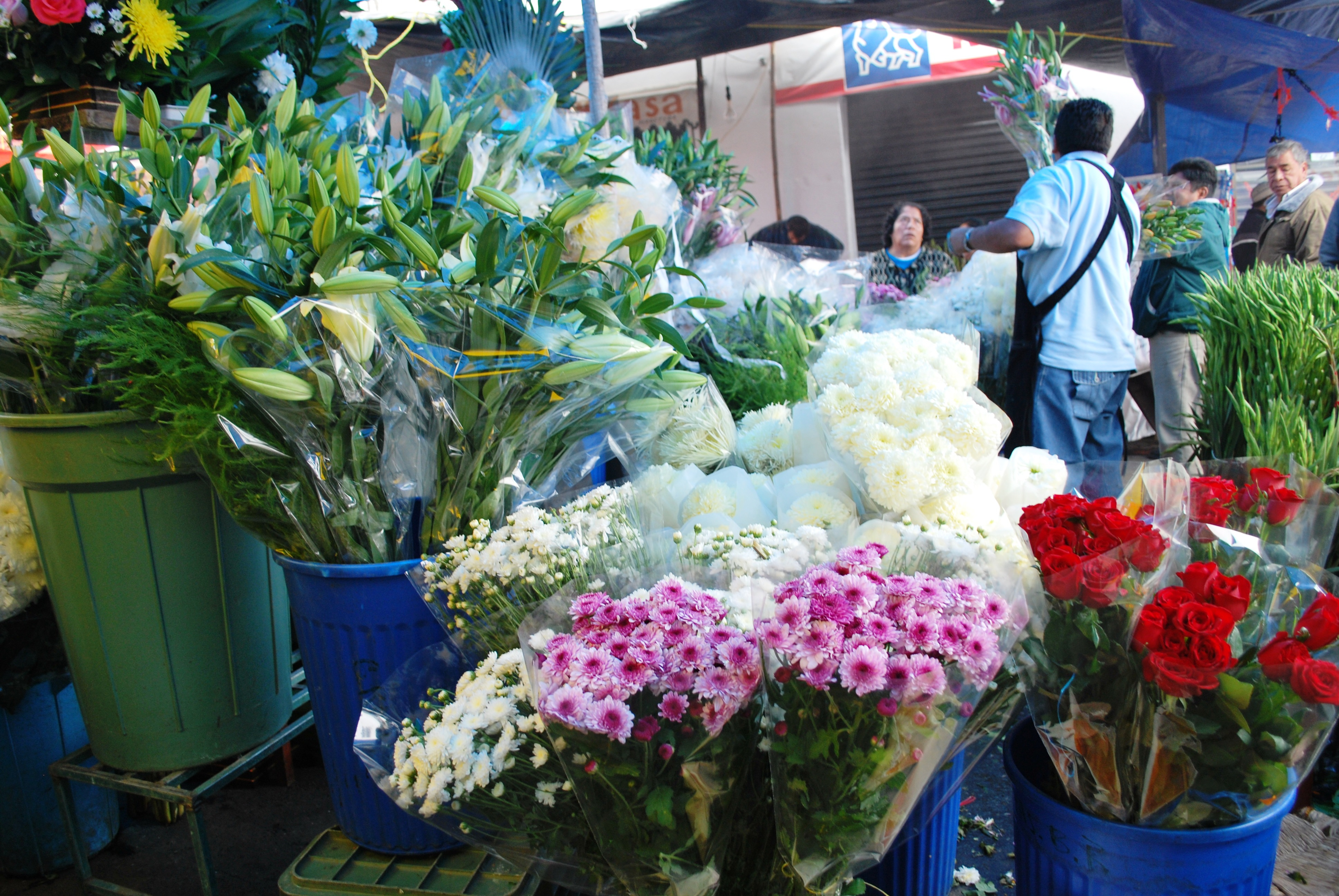 Flowers for sale at the Day of the Dead market in Santiago Tianguistenco, Mexico State